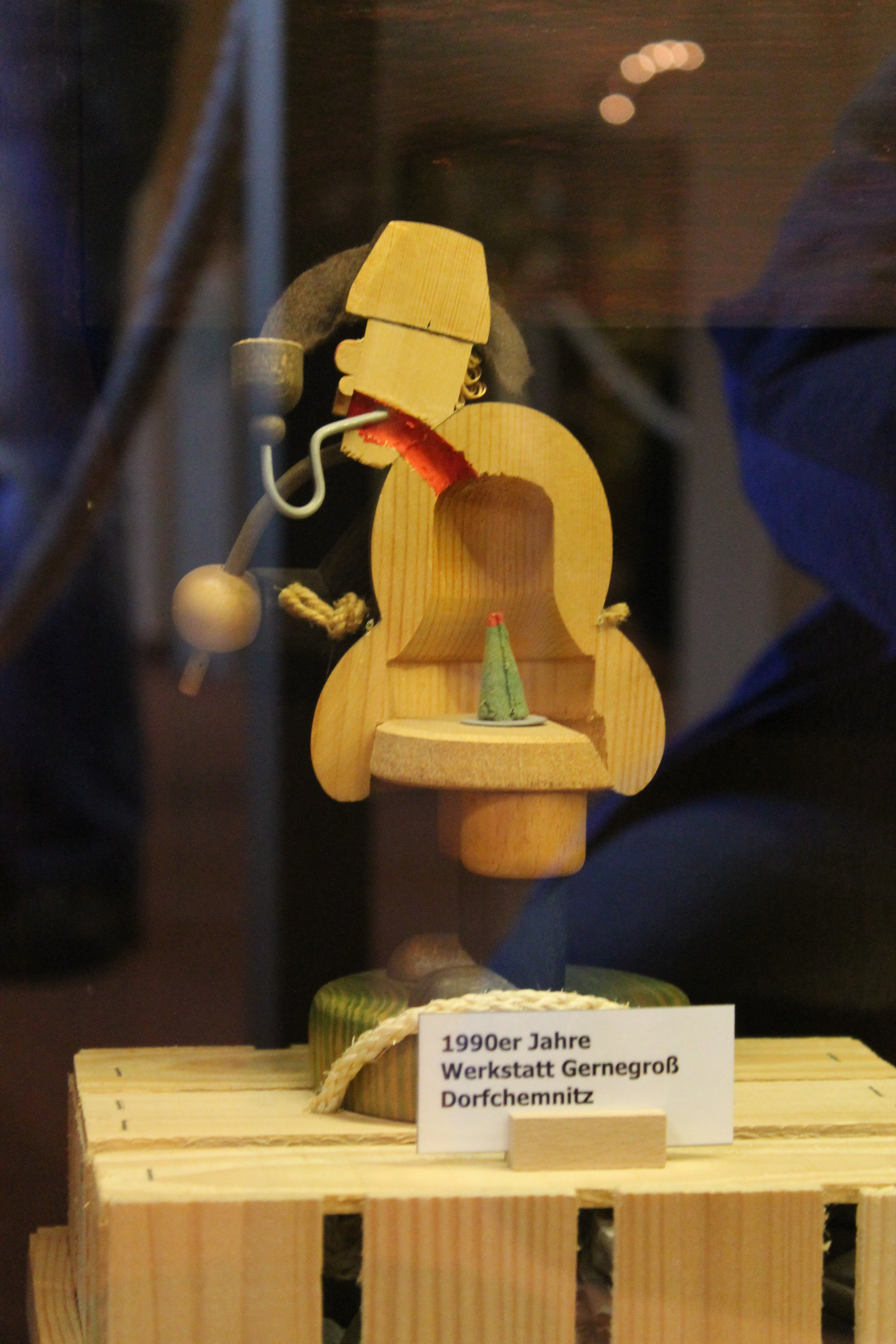 Cross section.